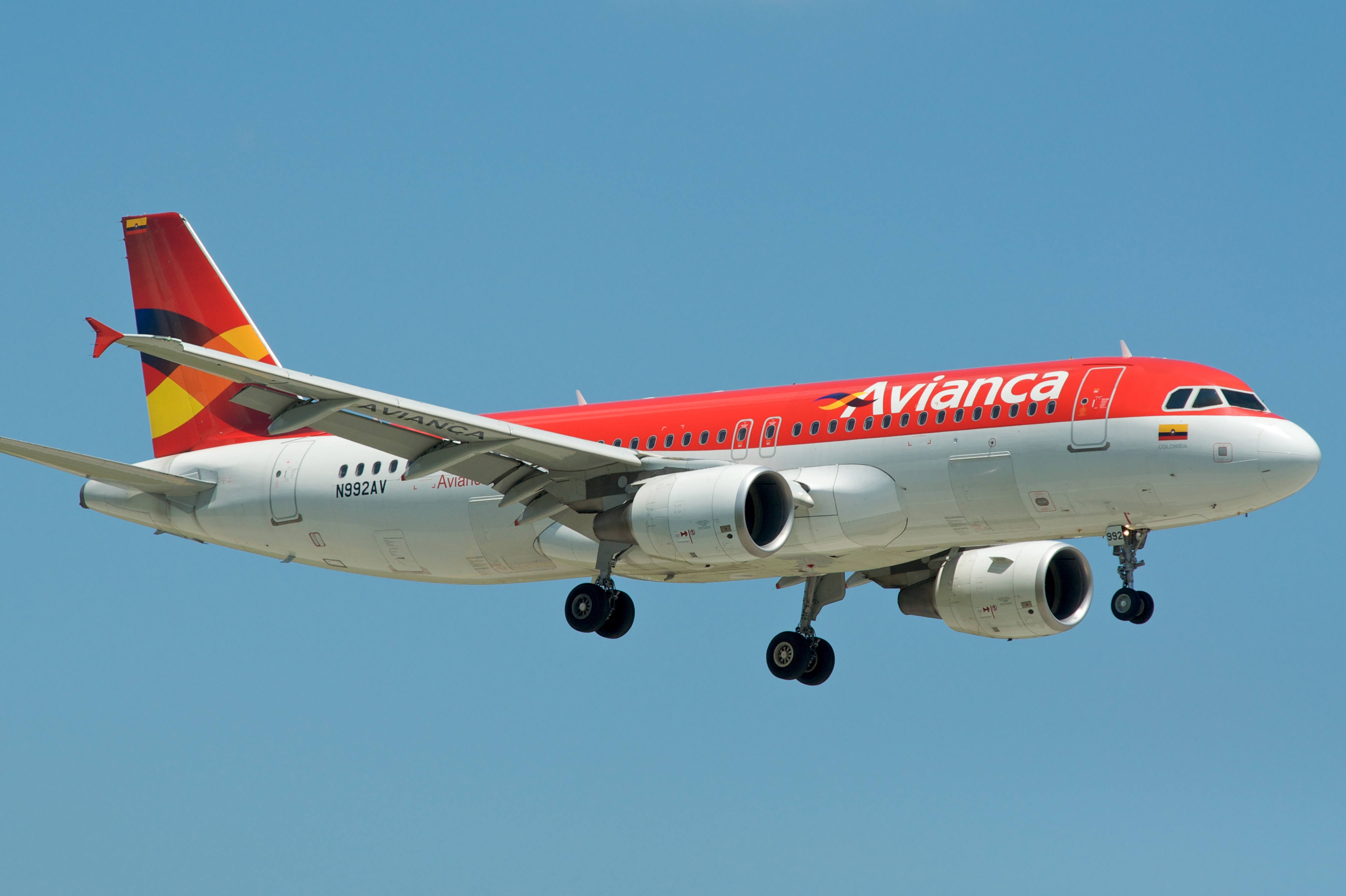 Avianca Columbia A320 on short final, runway 9, Miami International Airport